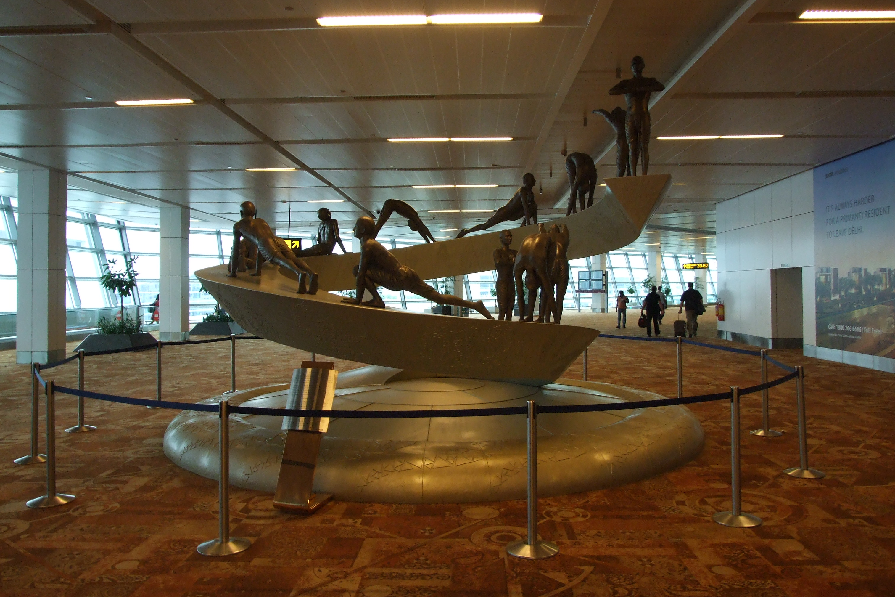 Sculpture depicting 12 asana's of the Surya Namaskar at Terminal T3 at IGIA Airport, New Delhi, India, Design , Landor/Incubis Consultants, delhi, execution Ayush Kasliwal design Pvt. Ltd, human figures sculpted by Nikhil Bhandari.